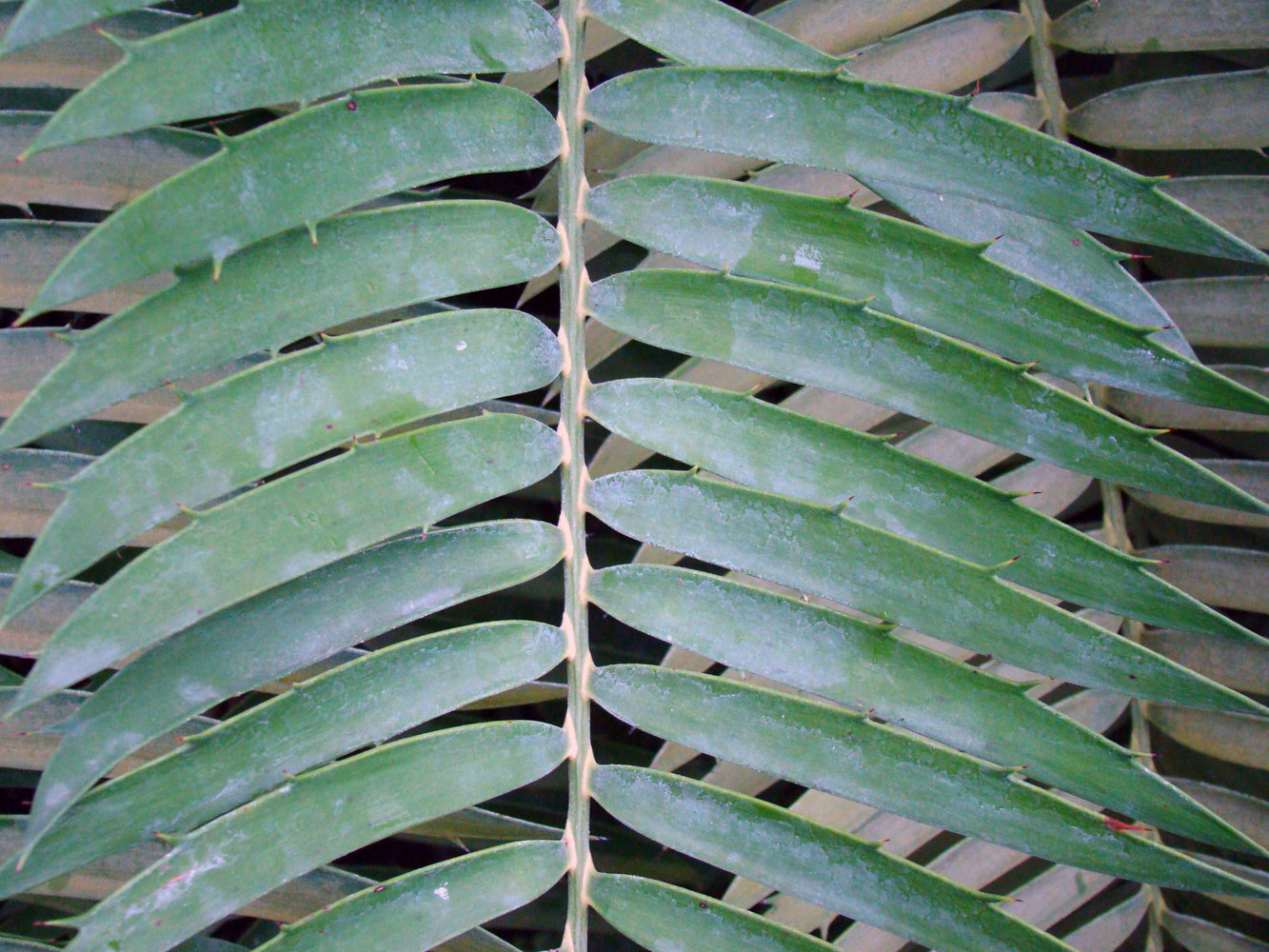 The oldest European cycad in Lednice Greenhouse.